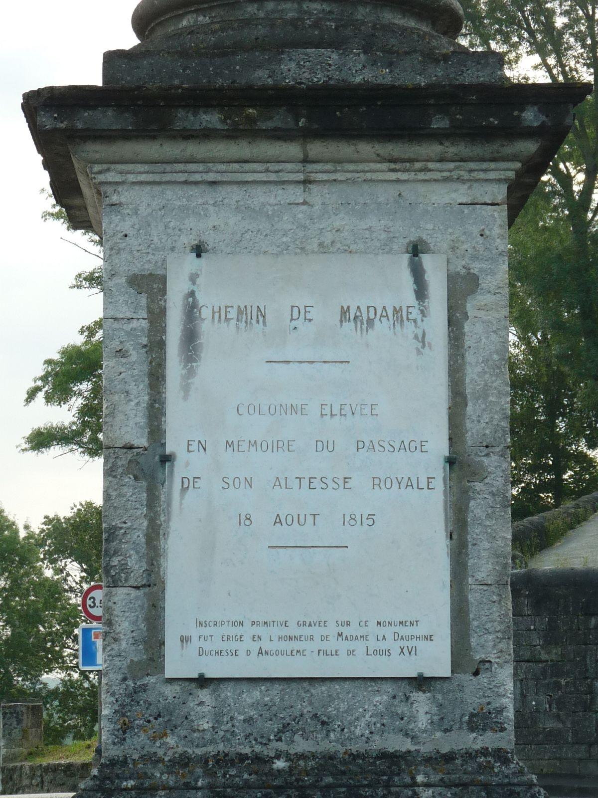 Duchesse of Angoulême Column, Louis XVI's sister (1815), Angoulême, Charente, SW France